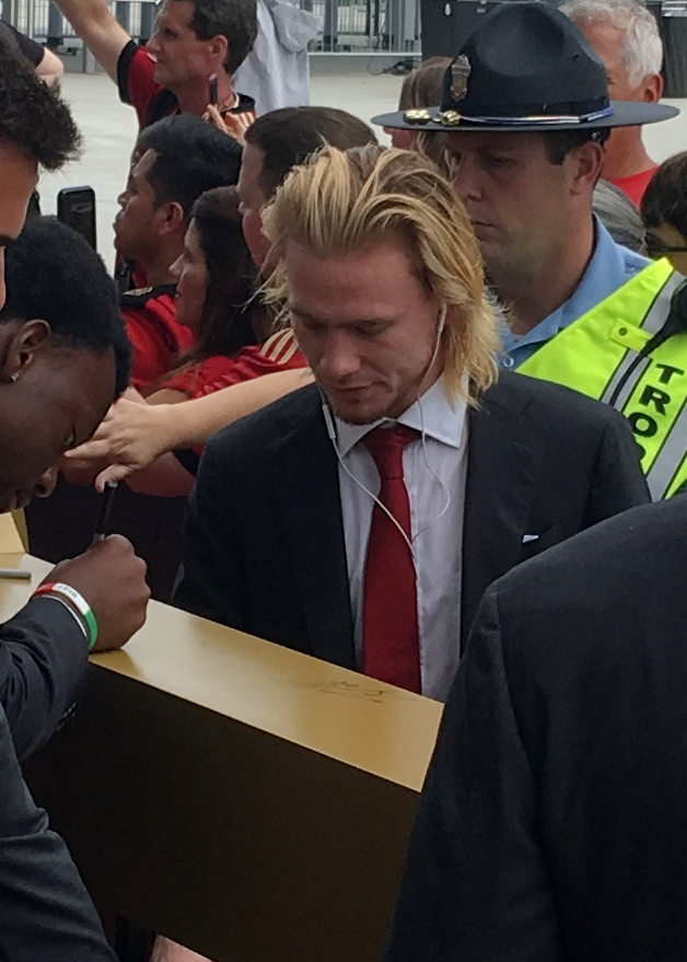 Andrew Carleton signing the Golden Spike for Atlanta United on August 19, 2018